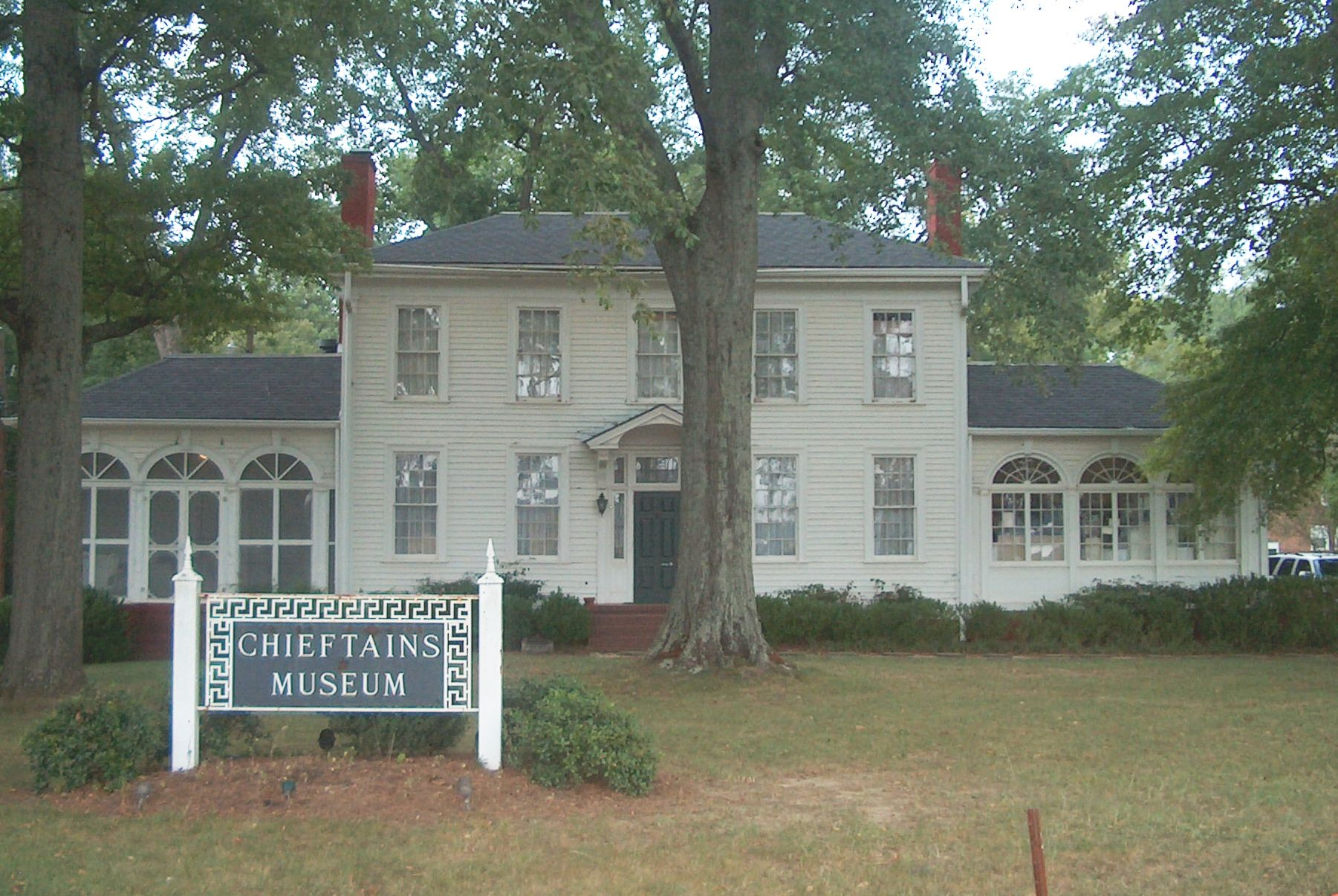 Chieftains, home of Major Ridge